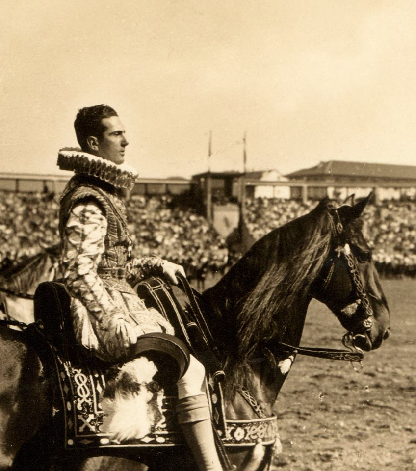 Crown Prince Umberto of Italy (later King Umberto II) in Torino